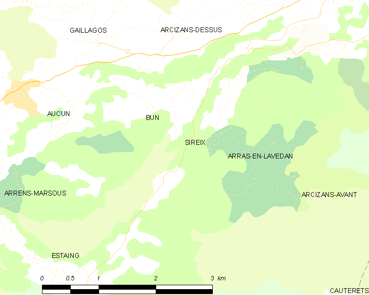 Map of French municipality